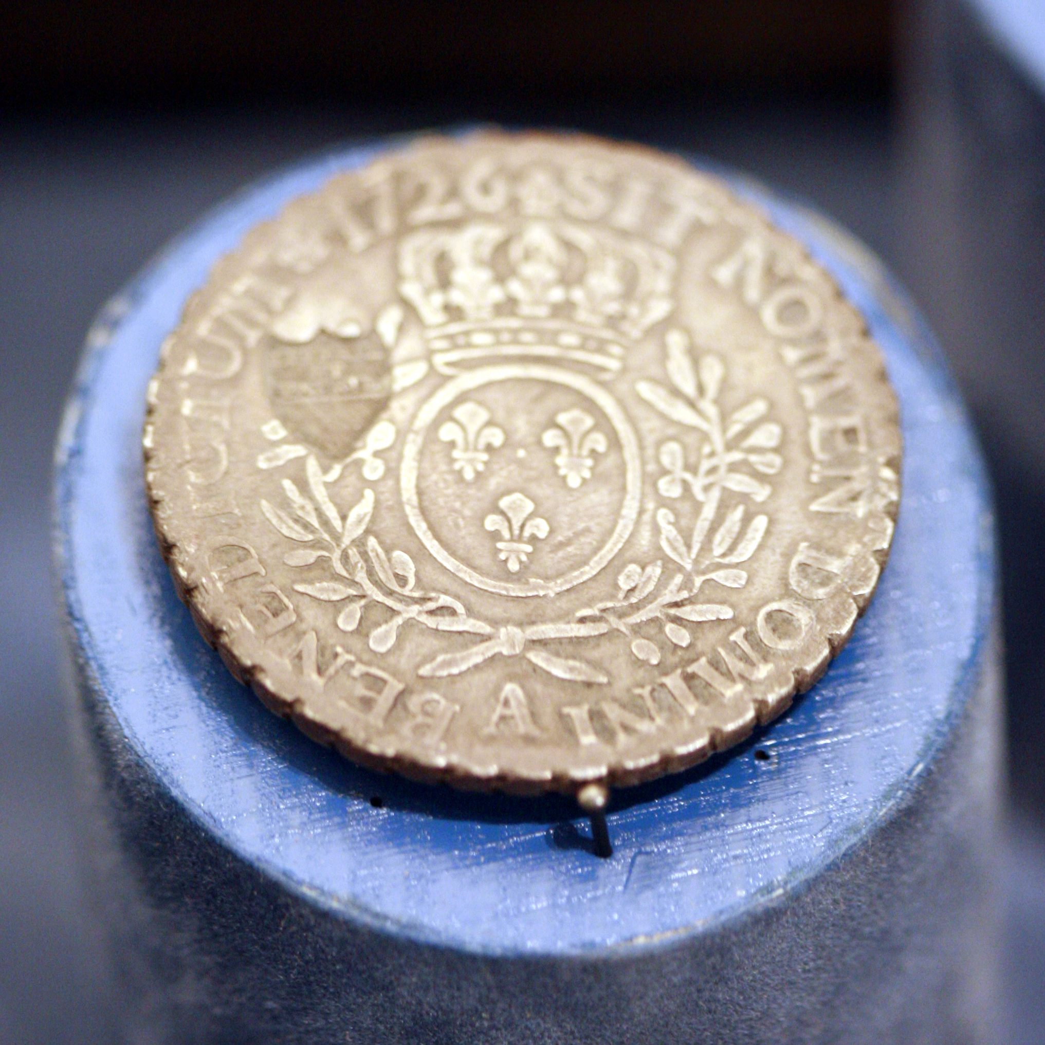 French ecu, with a stamp from Lausanne certifying equivalent value of the coin as 39 batz. French coins has currency in Switzerland.